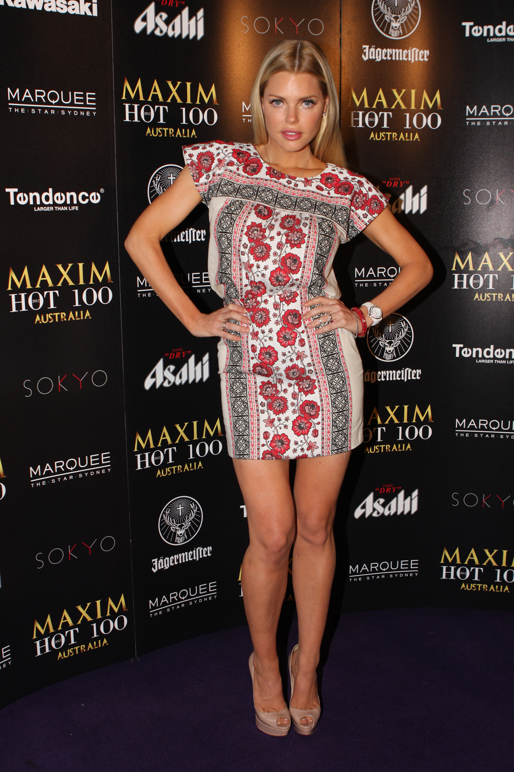 Maxim Australia Celebrates Hot 100 At Halloween Bash With Special Guest Sophie Monk; Marquee, Sydney – The Star.